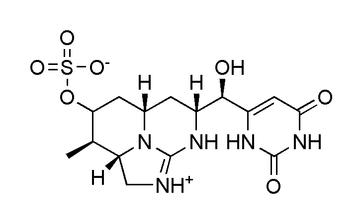 Cylindrospermopsin structure